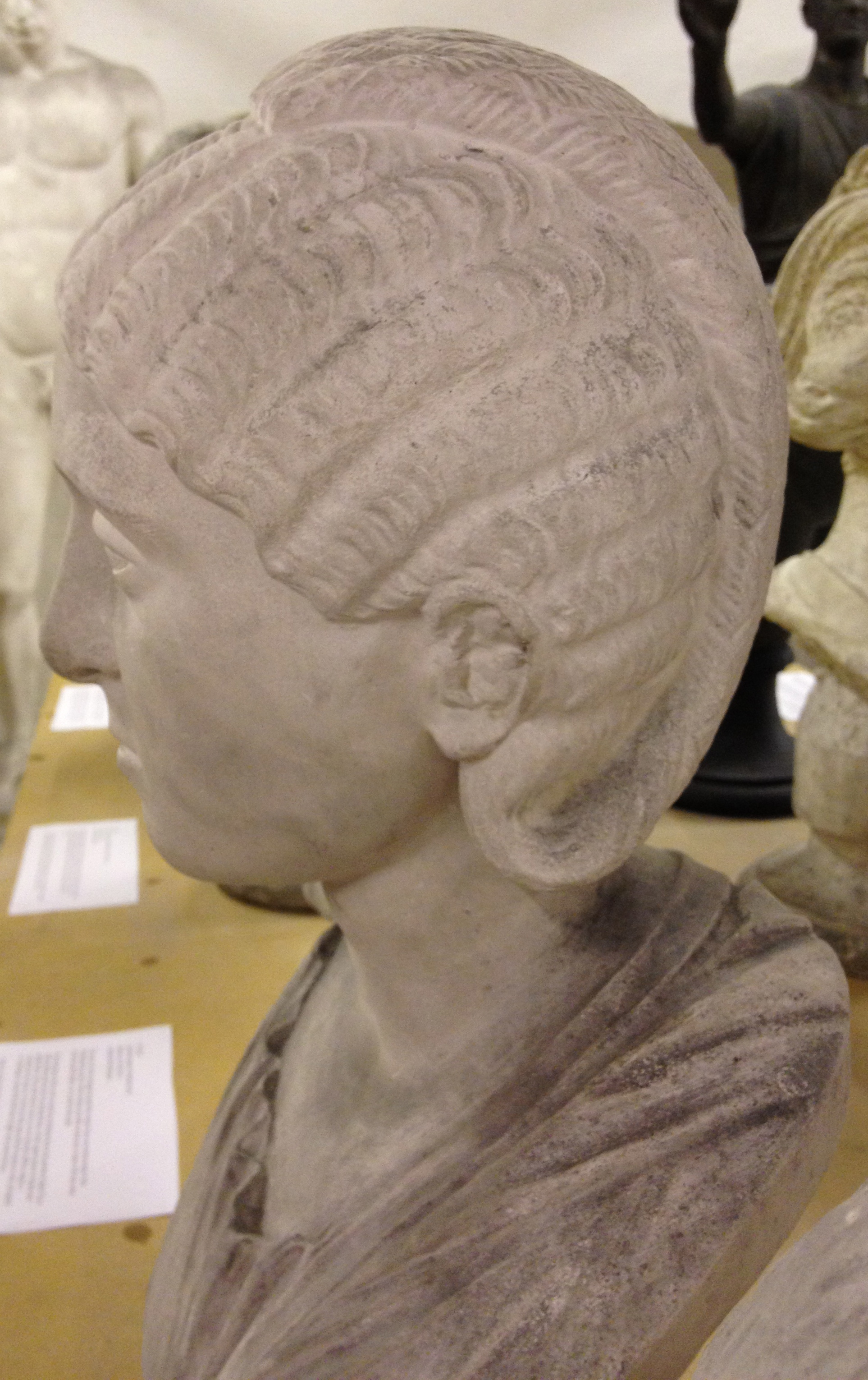 KAS 689 Sabinia Furia Tranquillina, wife of Gordian III, emperor from 238-244 AD Roman, 241-244 AD London, British Museum View from side Exhibit af Roman divas and their hair at the Royal Cast Collection, Copenhagen, Denmark Udstilling af romerske divaer og deres hår på Den Kongelige Afstøbningssamling, København, Danmark